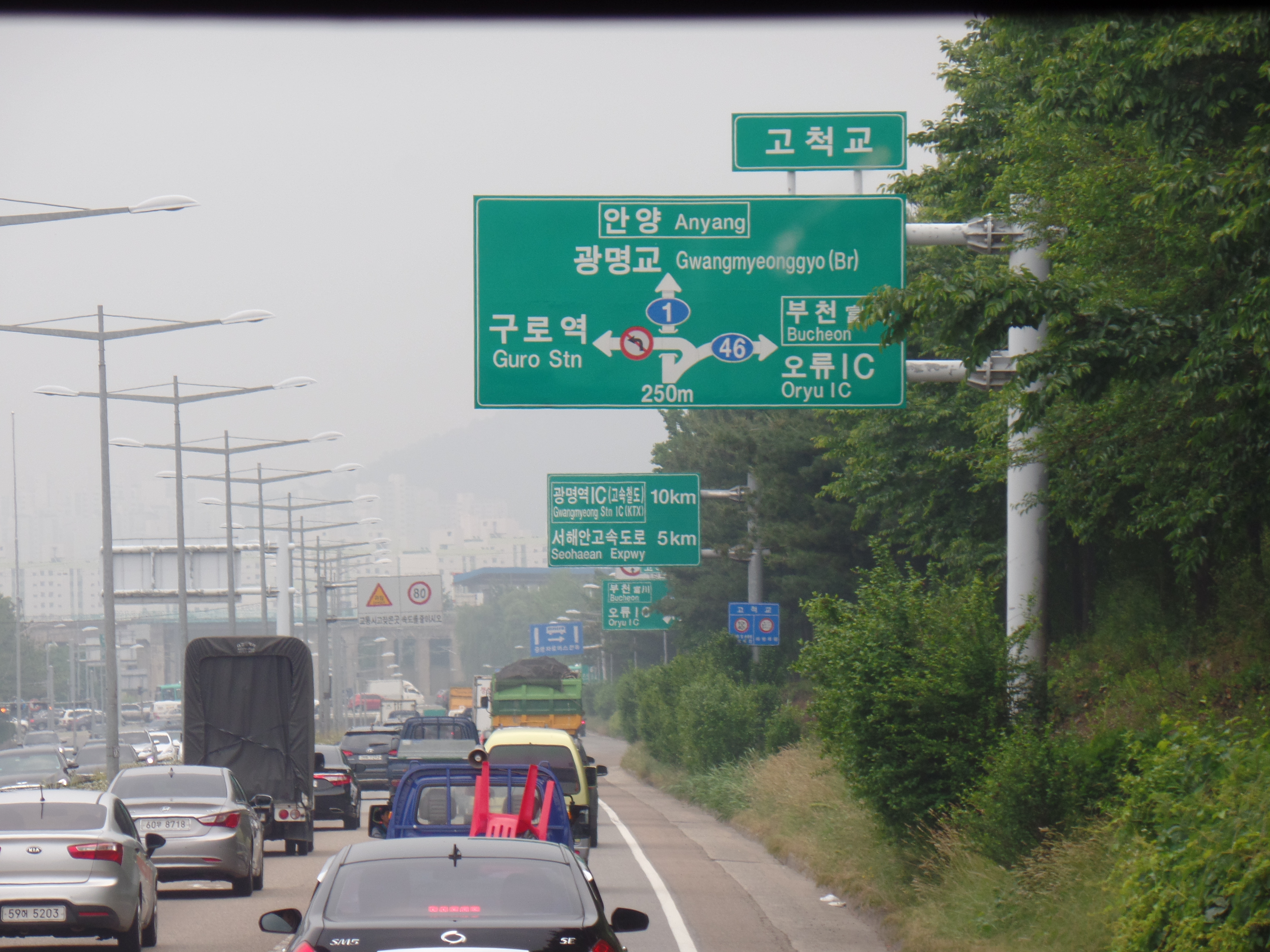 Republic of Korea National Route 1 Seobu Arterial Highway Gocheokgyo Interchange 250m Ahead(Geumcheon IC Direction)